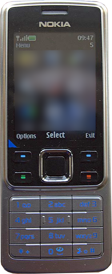 mobile phone Nokia 6300